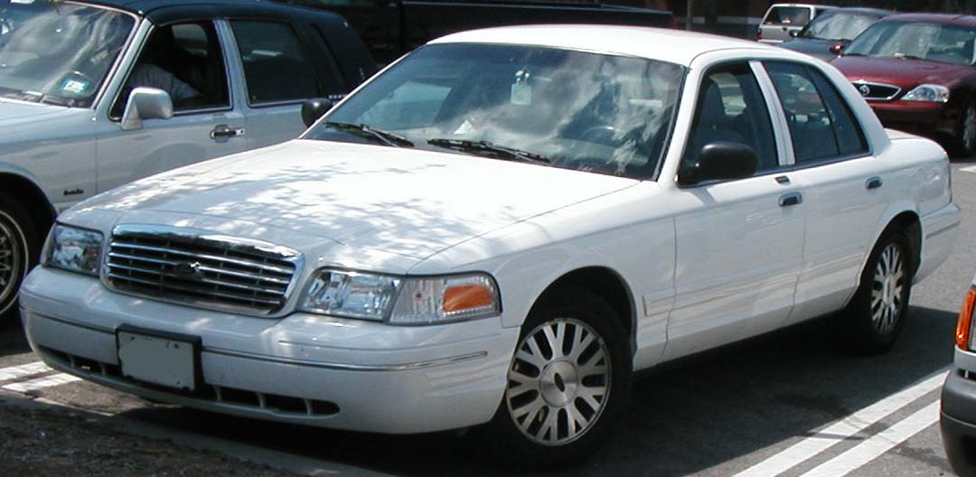 1998-2006 Ford Crown Victoria photographed in USA.